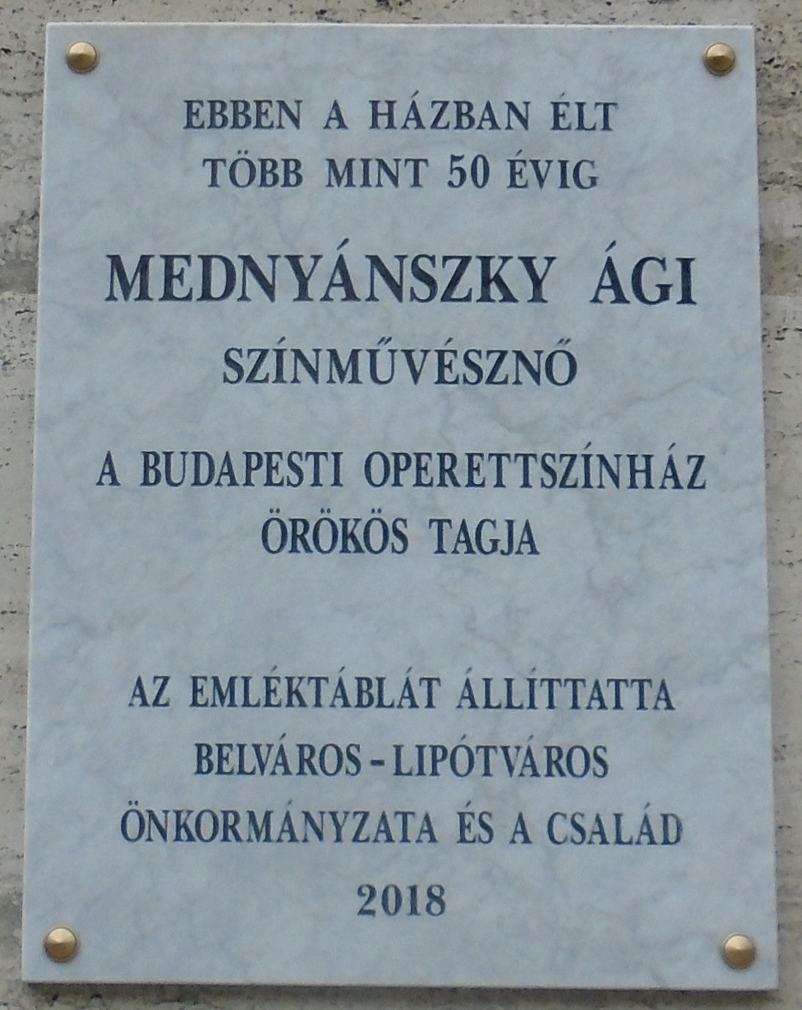 Ági Mednyánszky's commemorative plaque in Budapest District V.